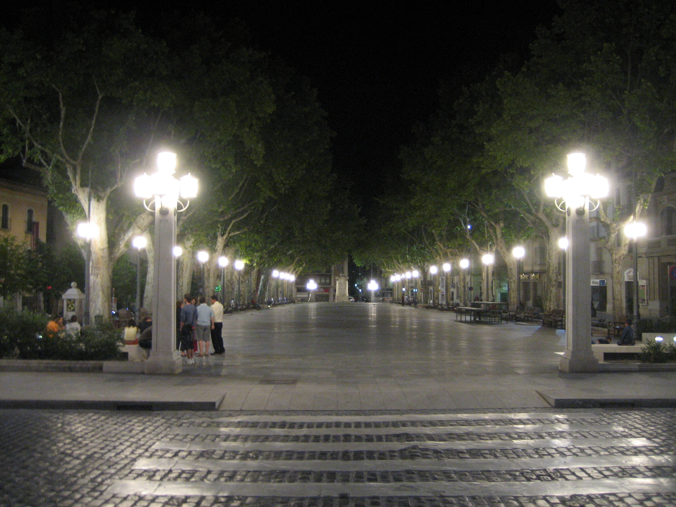 Square Figueres - Spain Picture taken by Hullie August 2006